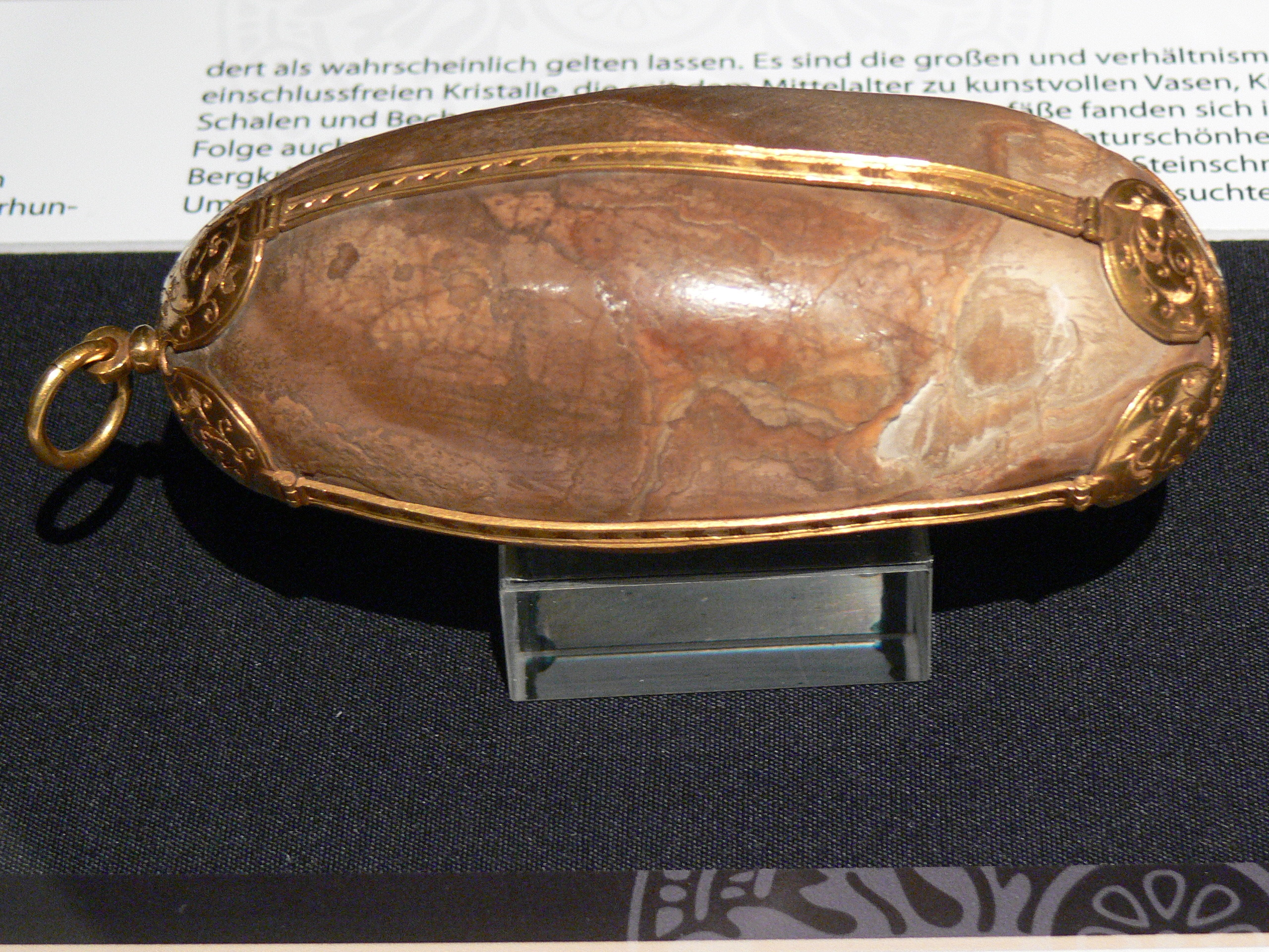 Bezoar ( 16th century, Treasury of the Teutonic order, Vienna ).